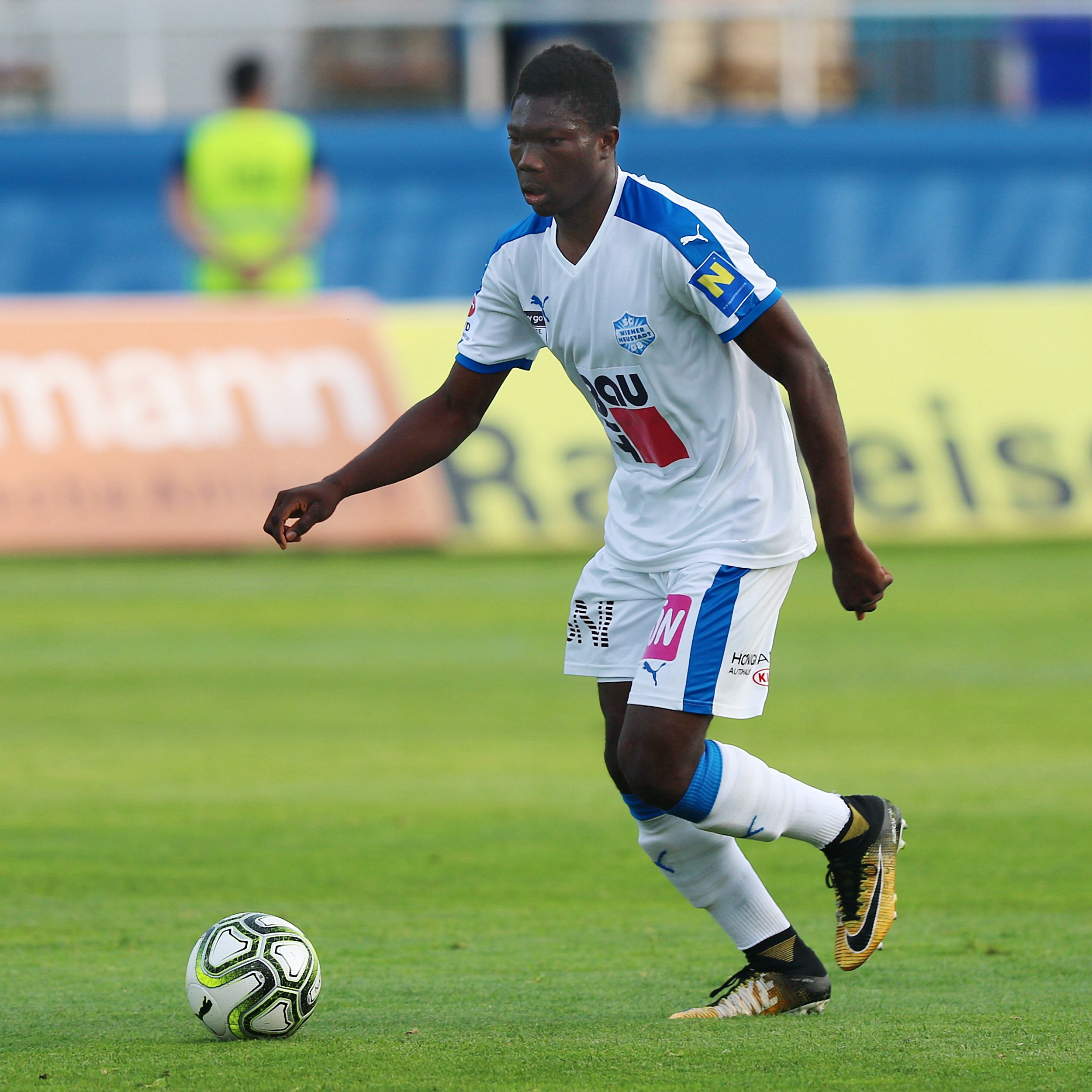 Football-championship Erste Liga 2017–18 - SC Wiener Neustadt (white shirts) vs. Floridsdorfer AC (blue shirts) 1-0. – The photo shows Youba Diarra